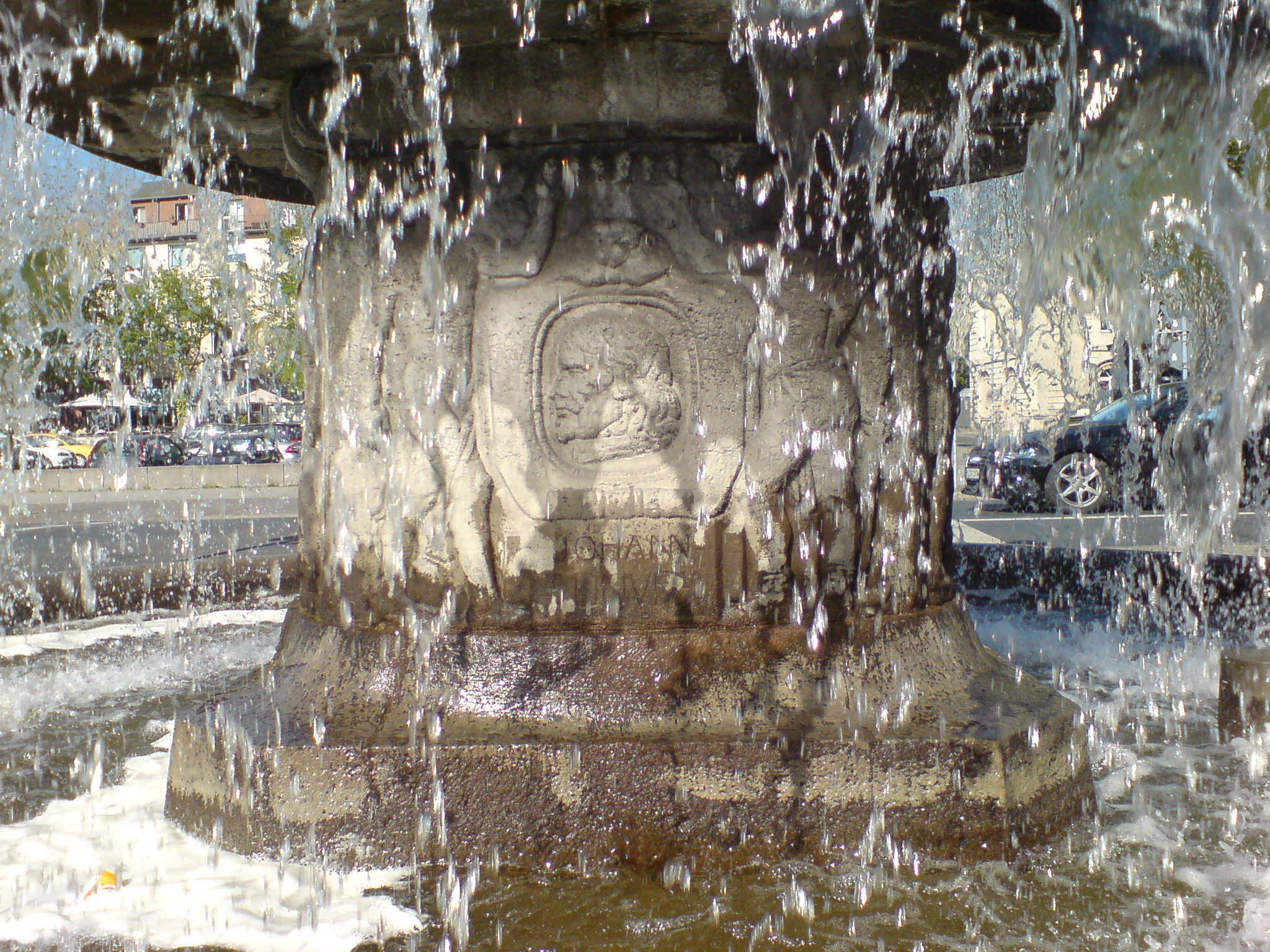 Johann Duve behind the water